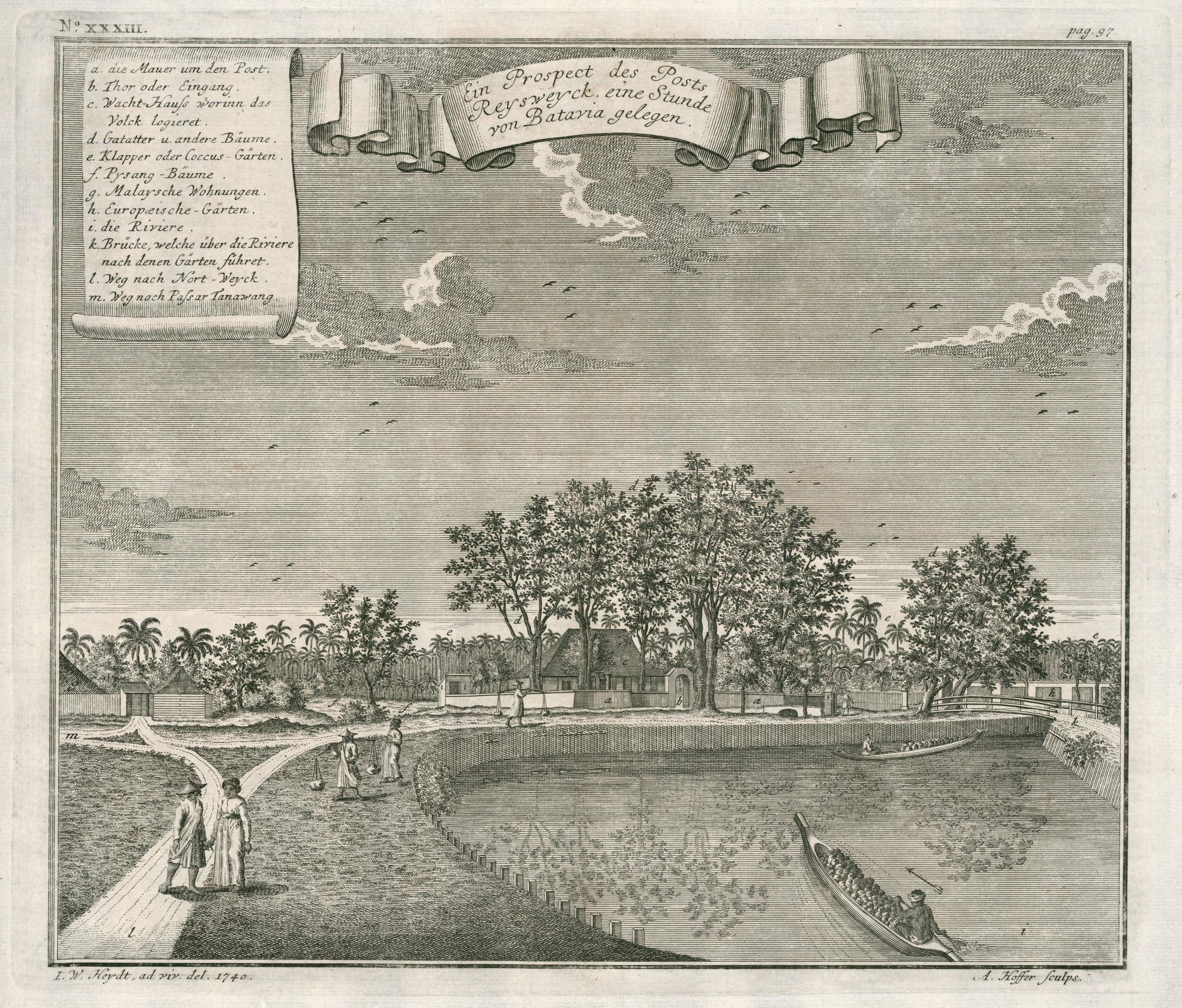 View of Fort Rijswijk. Ein Prospect des Posts Reysweyck. eine Stunde von Batavia gelegen. Top left: No: XXXIII. Top right: pag. 97.. Key: a. die Mauer um den Post. / b. Thor oder Eingang. / c. Wacht-Hauss worinn das Volck logieret. / d. Gatatter u. andere Bäume. / e. Klapper oder Coccus-Gärten. / f. Pysang-Bäume. / g. Malaysche Wohnungen. / h. Europaeische-Gärten. / i. die Riviere. / k. Brücke, welche über die Riviere nach denen Gärten führet. / l. Weg nach Nort-Weyck. / m. Weg nach Passar Tanawang..